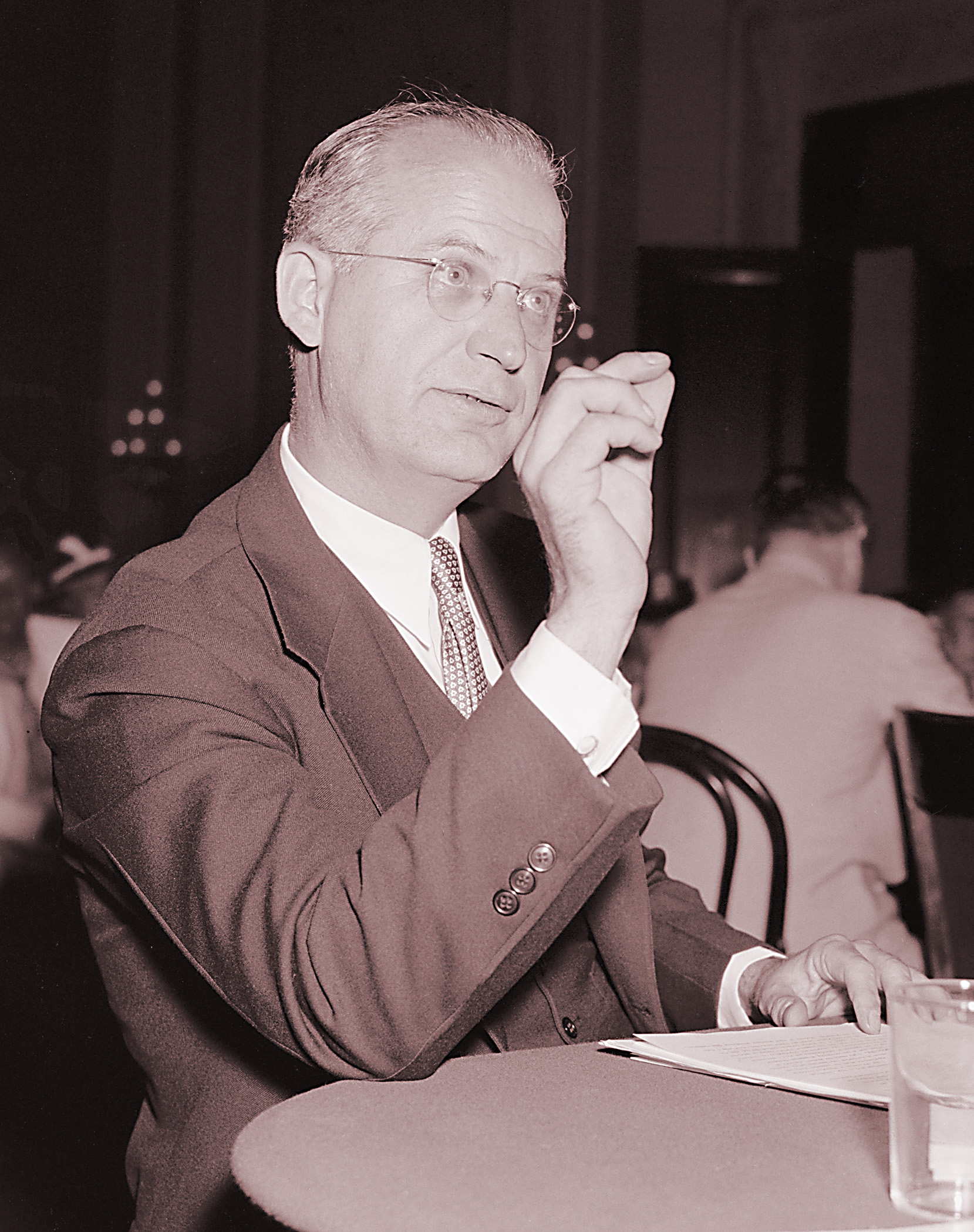 J.B. Matthews giving testimony before the Dies Committee of the US House of Representatives, August 22, 1938.